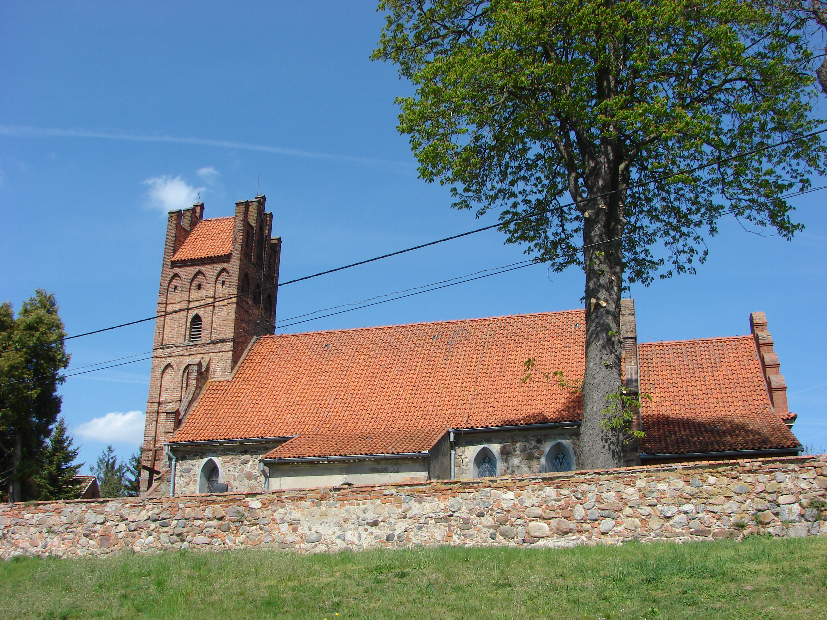 Church in Wielkie Czyste, Chełmno county, Poland, XIII century.